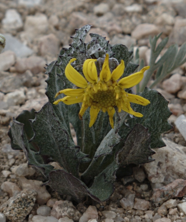 Senecio taraxacoides, dandelion ragwort or dandelion butterweed, near Lake Peak, Santa Fe National Forest, on a cloudy afternoon.